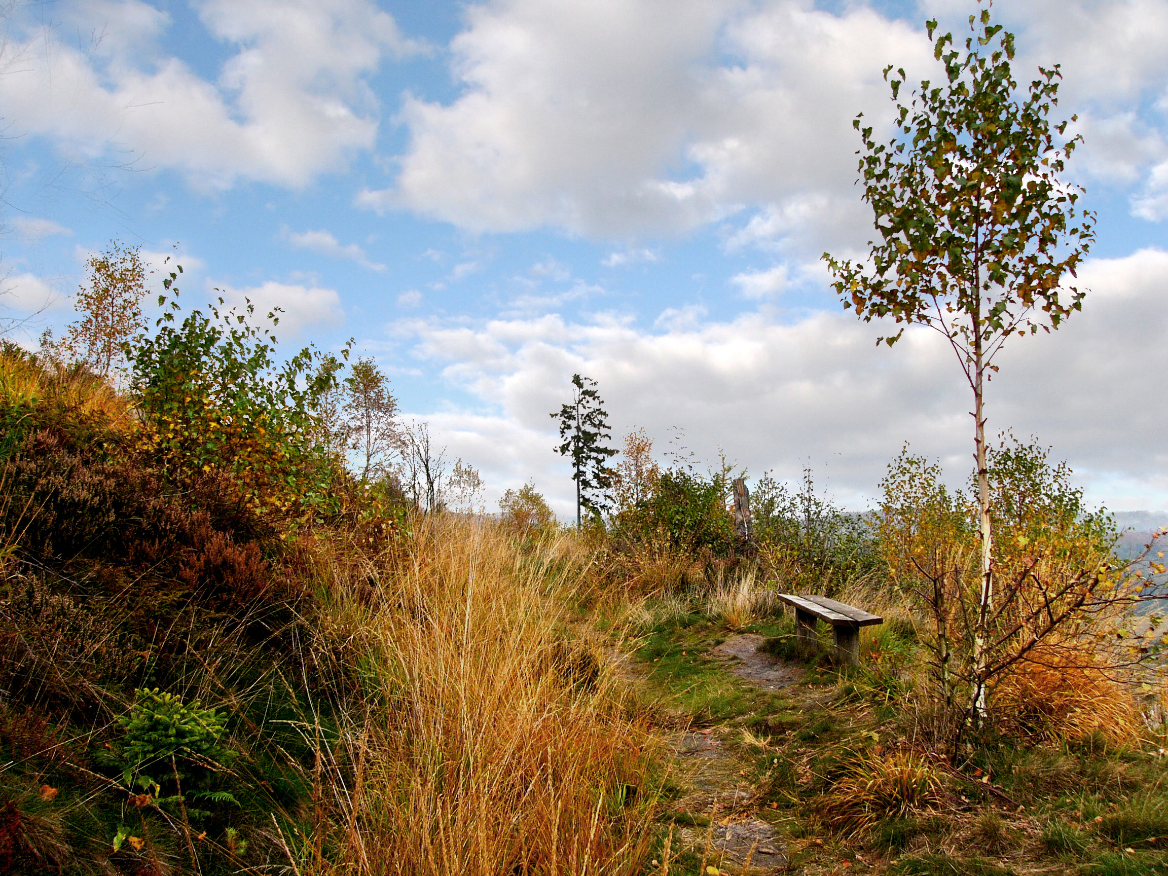 Tönsberg near Oerlinghausen in Teutoburg Forest, Germany